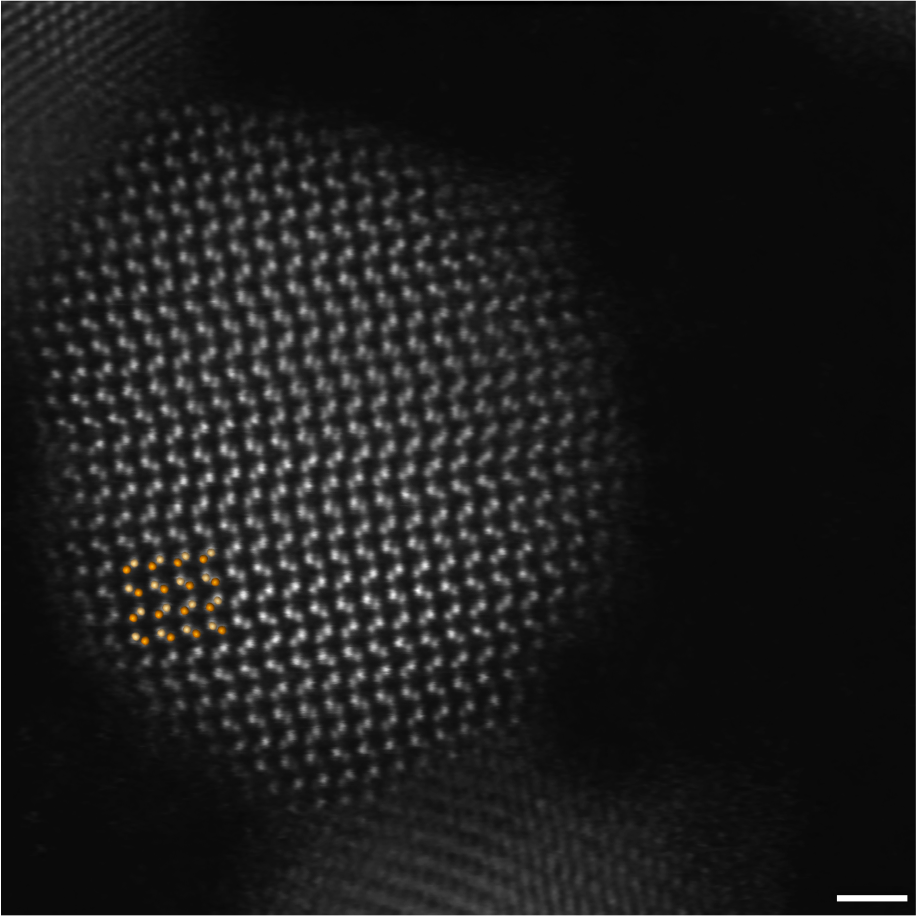 This image shows a CdSe nanoparticle with atomic resolution. It is a projection image of the nanoparticle where darker atomic columns represent Se columns while the brighter columns are Cd (atomic structure has been partially overlayed to highlight the atomic arrangement). Scale bar is 1nm. This micrograph is part of the CdSe research that appeared in "Surfactant Ligand Removal and Rational Fabrication of Inorganically Connected Quantum Dots", Nanoletters (2011).